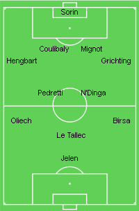 équipe type du début de saison de l'AJA 2010-2011